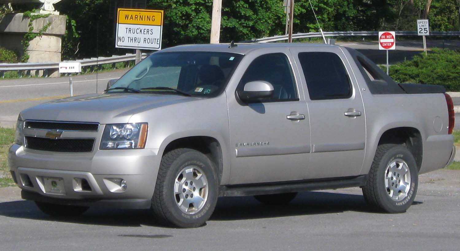 2007-2010 Chevrolet Avalanche photographed in Hancock, Maryland, USA.